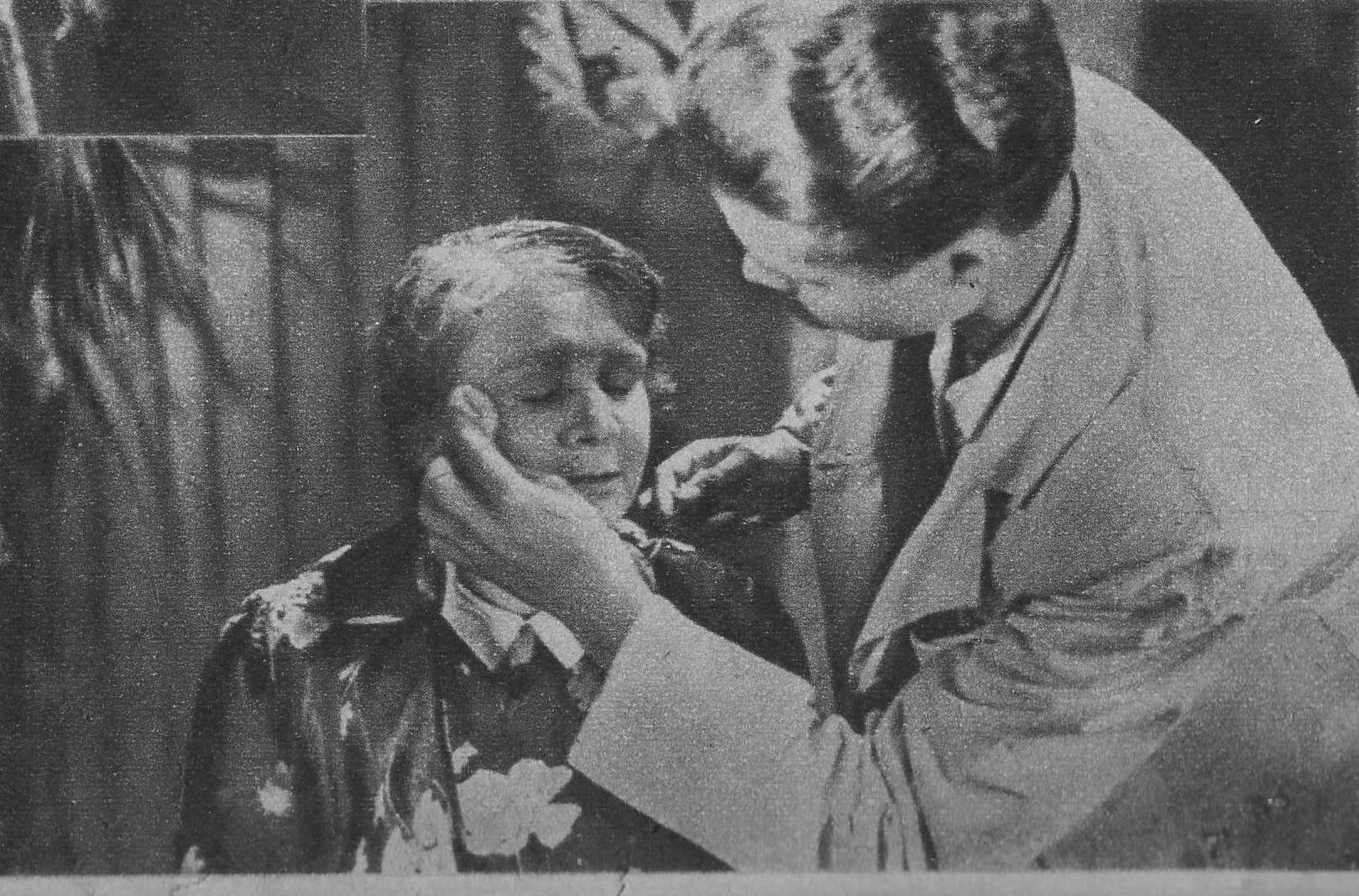 Making of Zakazane Piosenki (Forbidden Songs) movie, shot in 1946 in ruined Warsaw. Preparation of Janina Ordężanka.